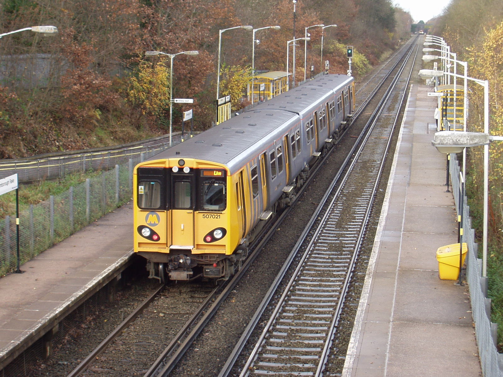 Bromborough Rake station platforms, from the overbridge, with electric train 507021 forming the 13:20 departure towards Liverpool